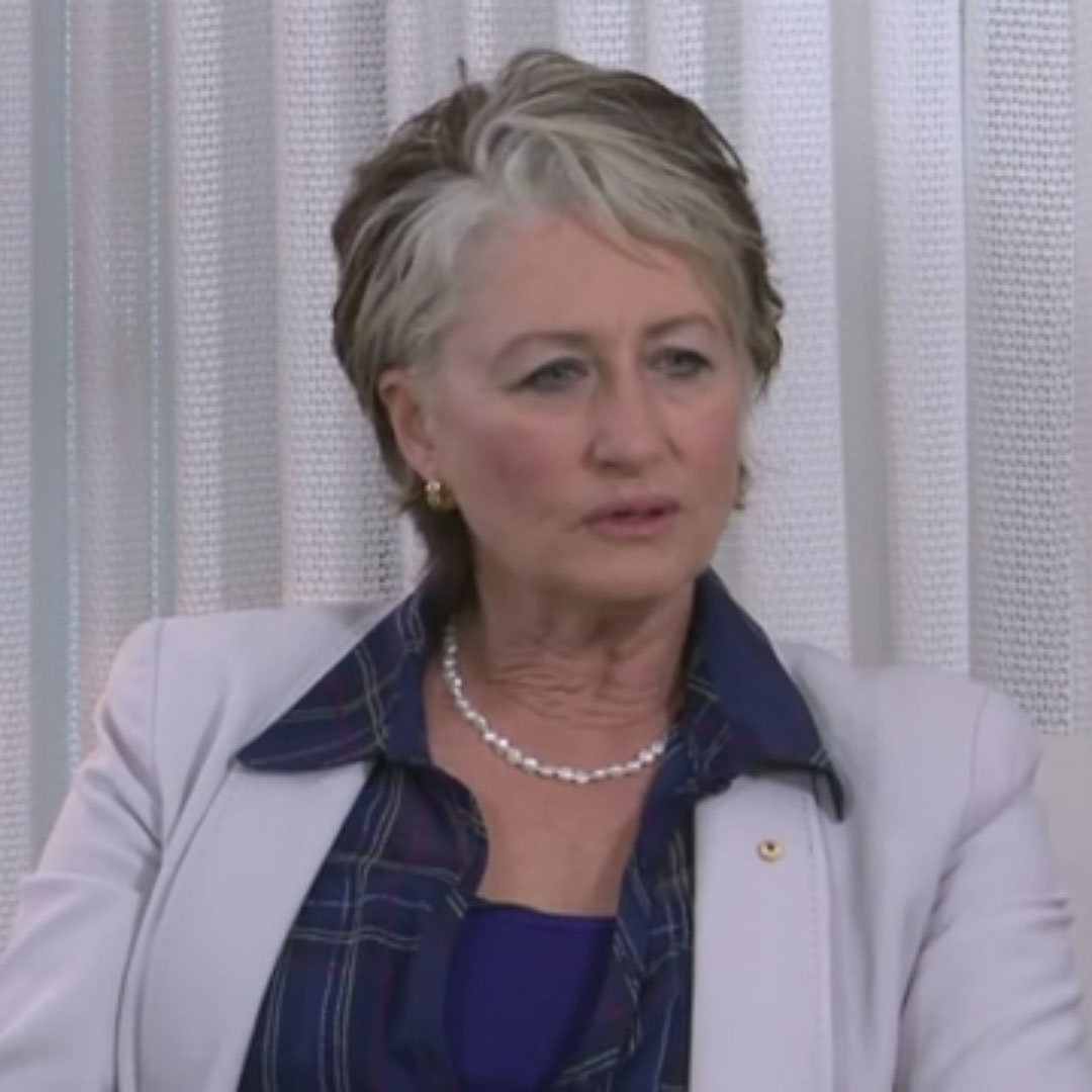 Kerryn Phelps interviewed by Deborah Hutton in 2012